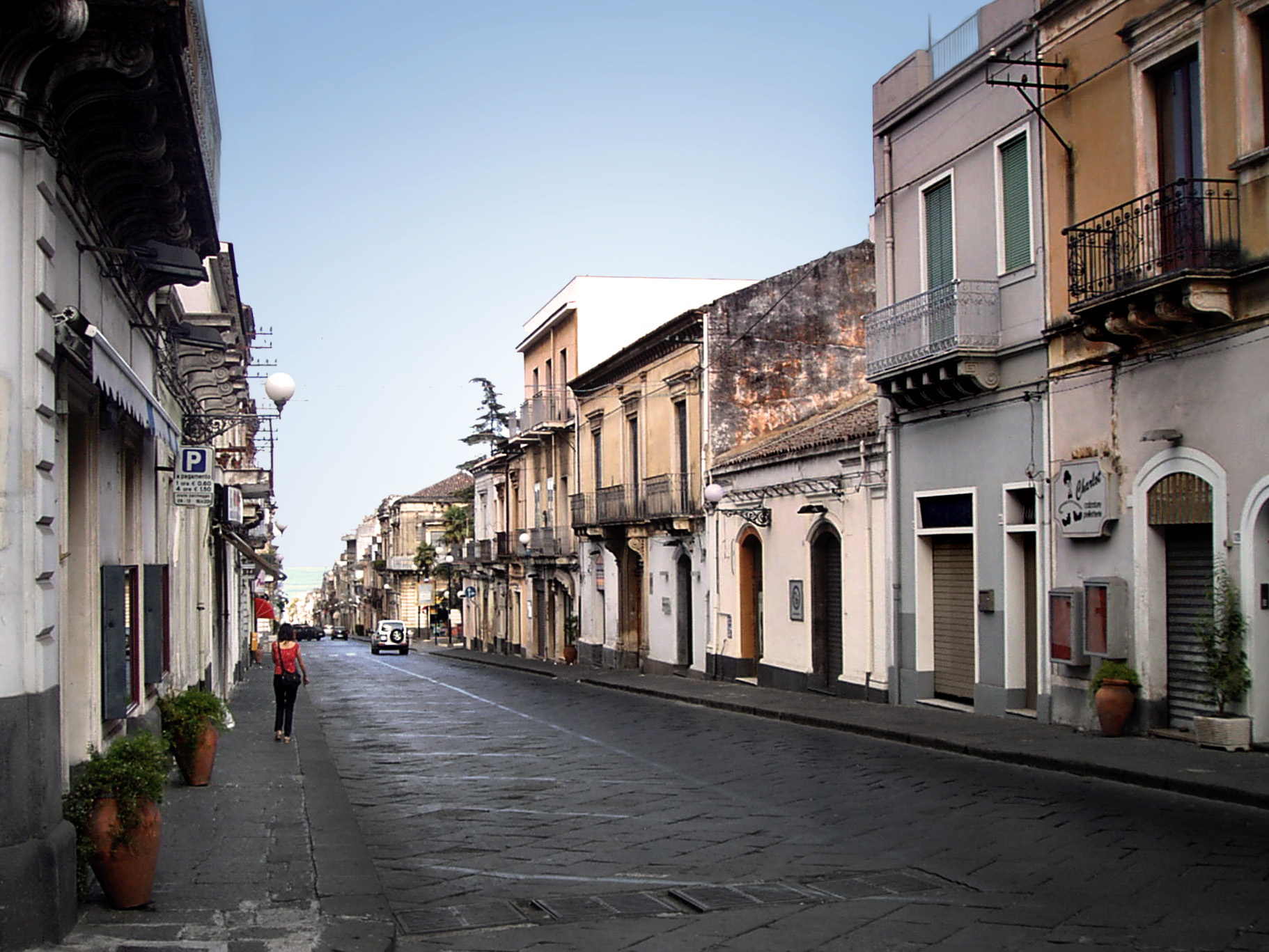 Giarre, Province of Catania, Sicily, Italy - Corso Italia